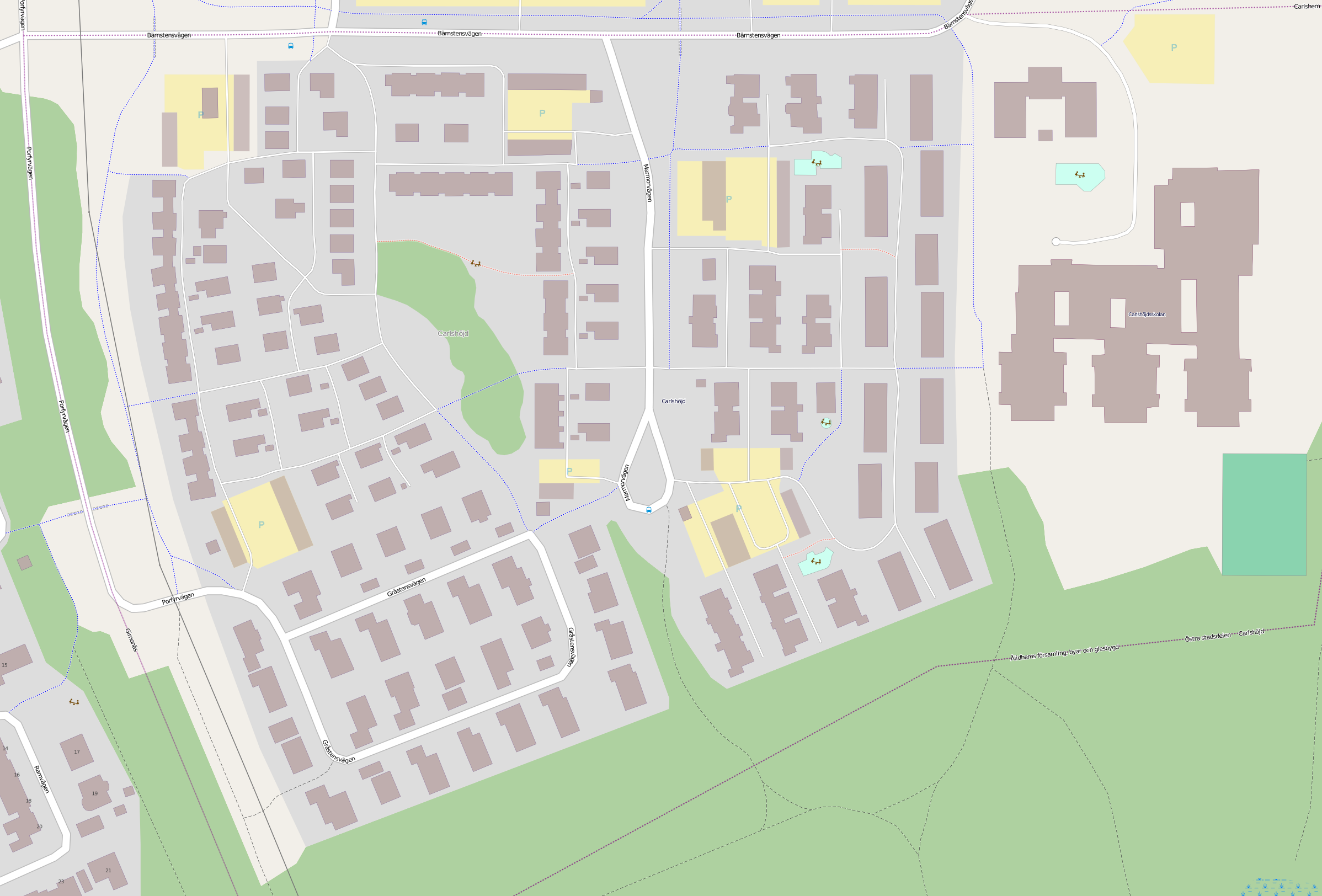 This map of Carlshöjd was created from OpenStreetMap project data, collected by the community. This map may be incomplete, and may contain errors. Don't rely solely on it for navigation.